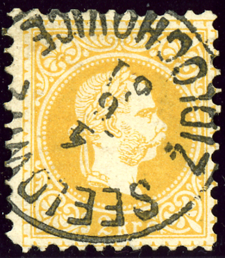 Austrian KK 2 kreuzer stamp, fine beard, bilingual cancelled SEELOWITZ - ZIDLOCHOVICE in 1881, Moravia